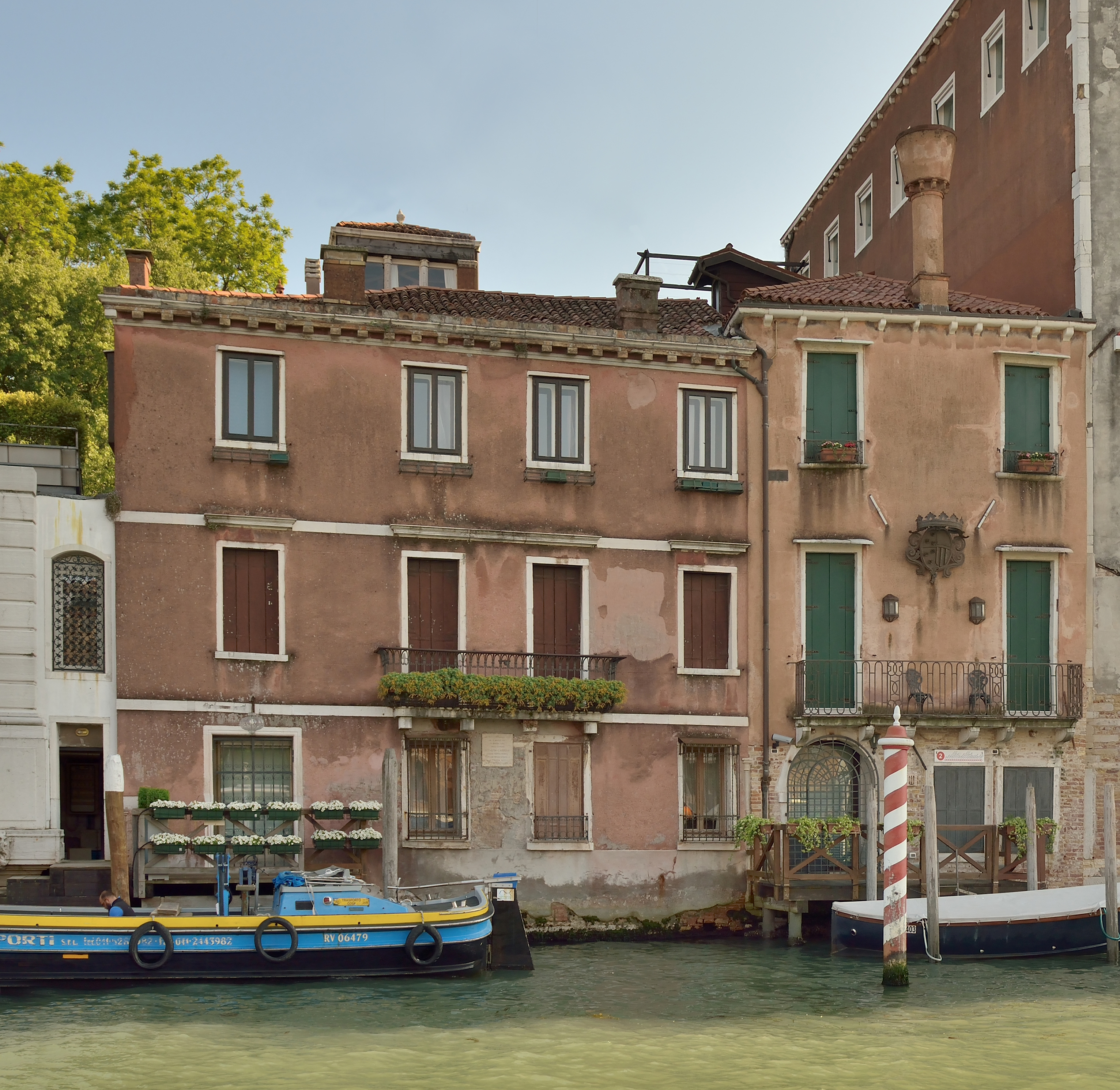 Ca Biondetti